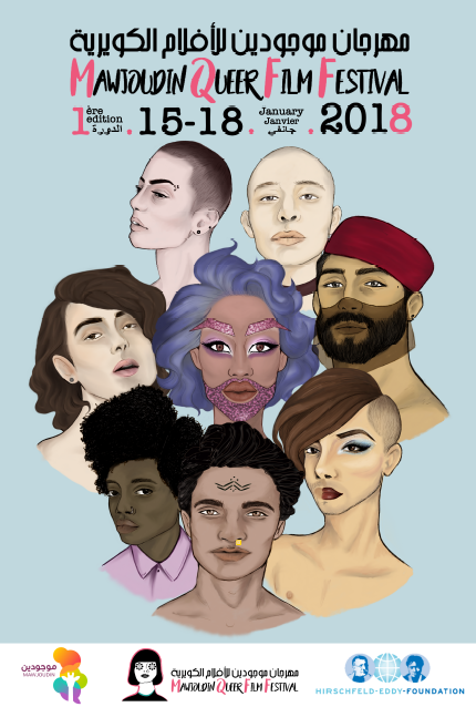 This is the official poster of the first edition of theMawjoudin Queer Film Festival which was held Tunis, Tunisia in 15-18th January 2018. This festival is a project of the Tunisian non-governmental organization Mawjoudin (We Exist).